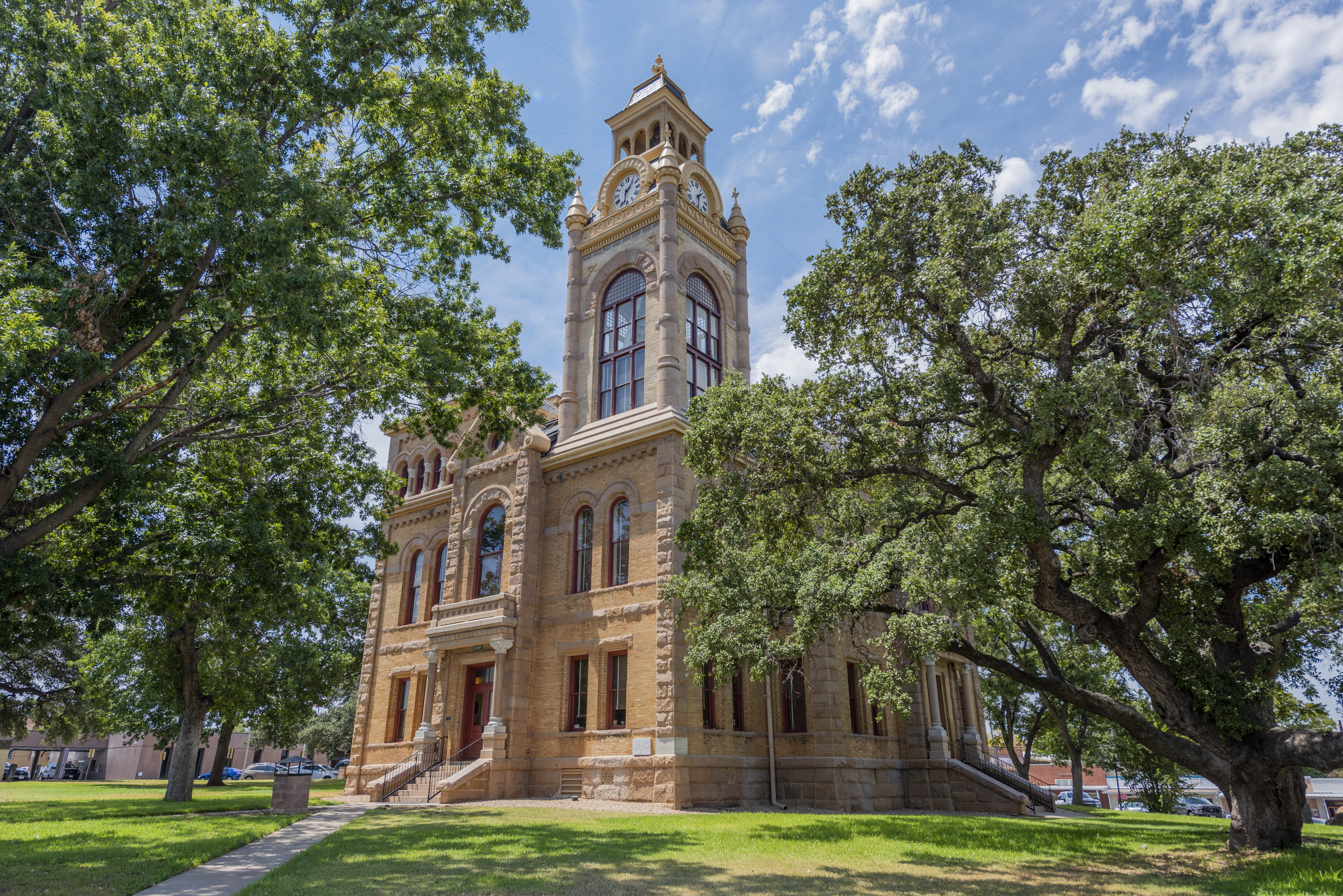 Photograph of the Llano County Courthouse in Llano, Texas. Image taken in August 2020.